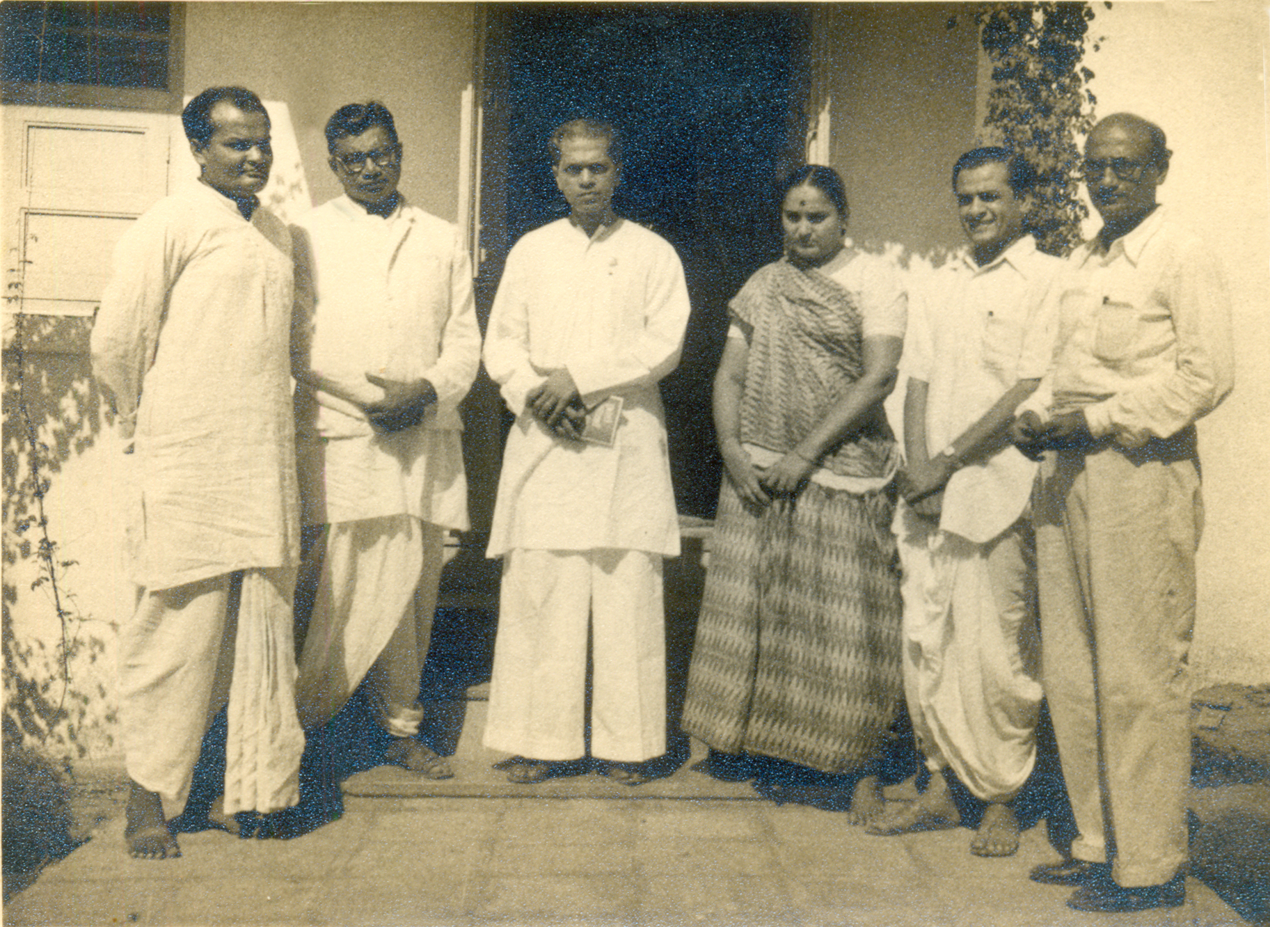 From left to second Jaybhikhkhu, Then Sundaram aka Tribhuvandas Luhar. From right to second is Dhirubhai Thaker